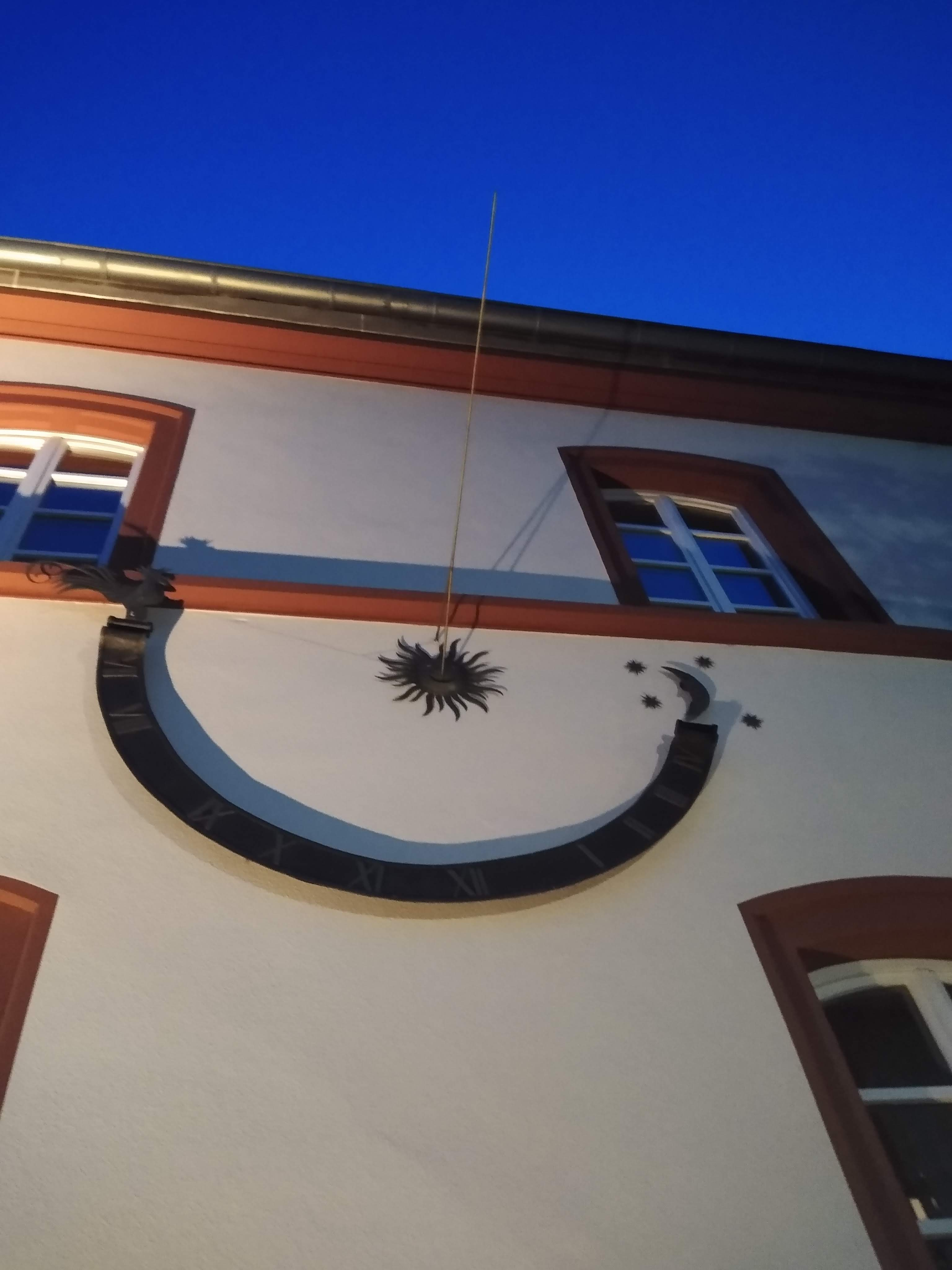 Bürgerhaus Sonnenuhr - Einöd